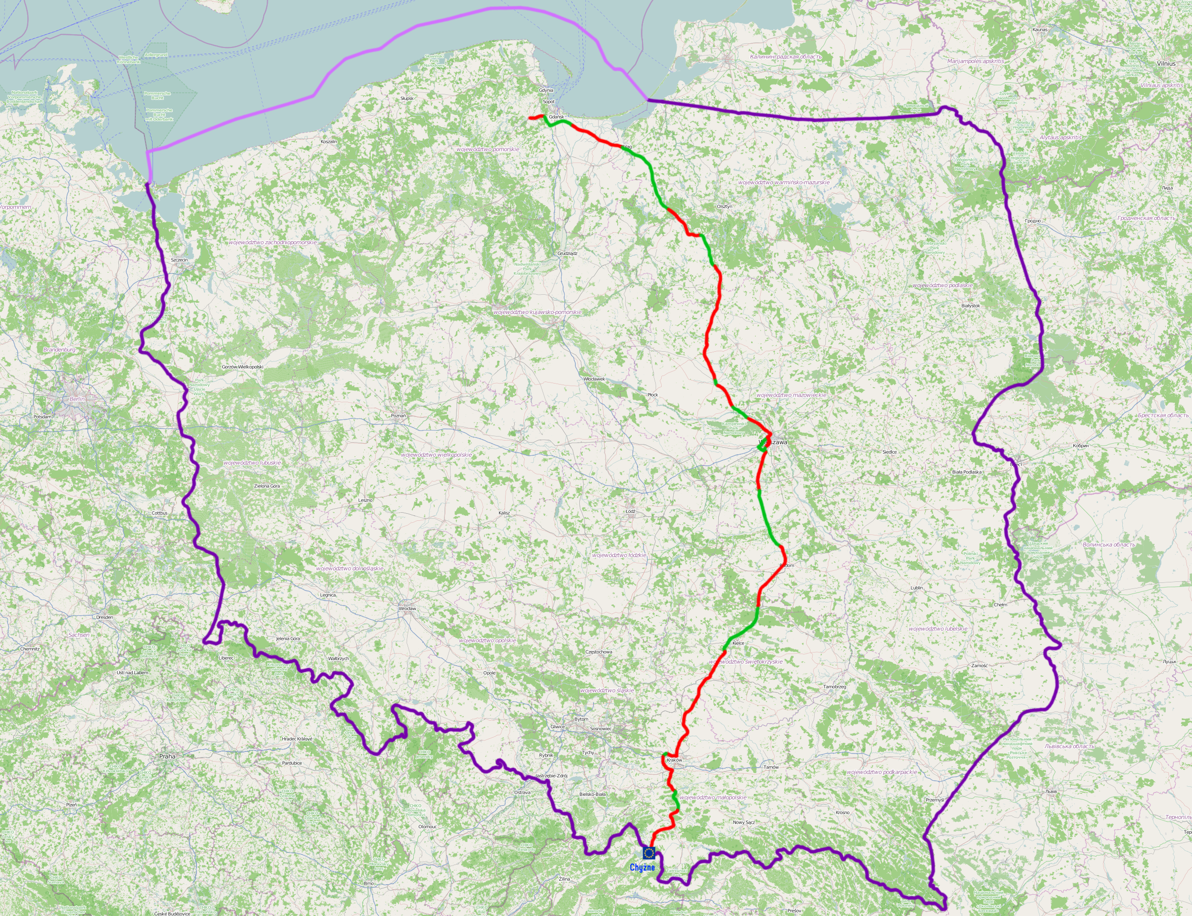 Map of route of Polish national road 7. Background from OpenStreetMap. National road 7 Expressway S7 Note: Near Kraków, the expressway S7 has a short concurrency with motorway A4.